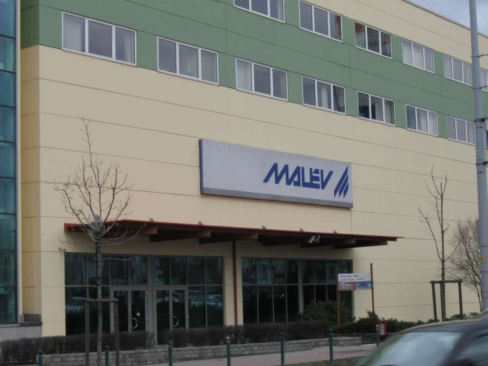 Malev Airlines Head Office Building. "Lurdy ház", Könyves Kálmán körút 12-14., Budapest, Hungary